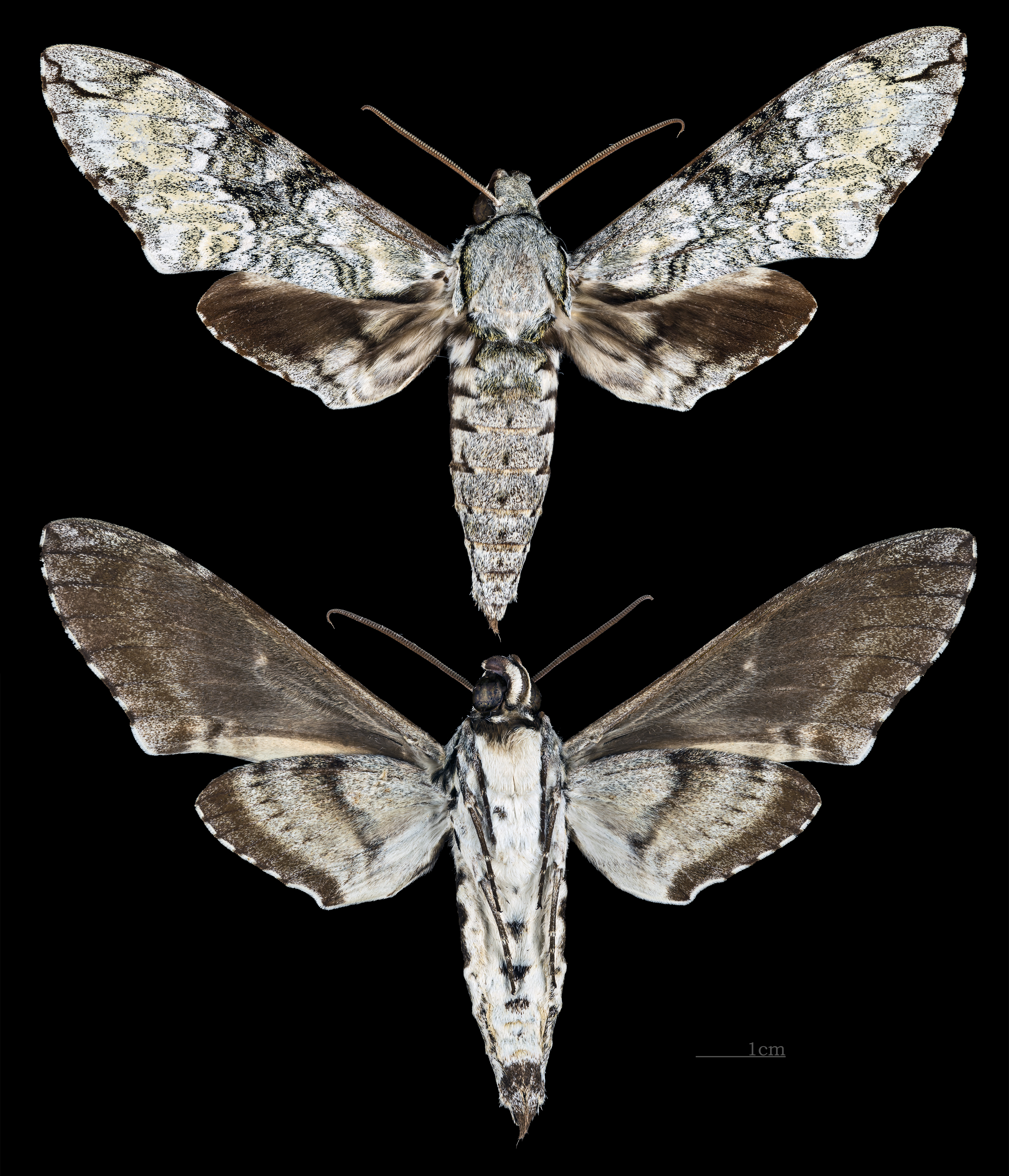 Manduca vestalis - Two views of same specimen Collection of the Mathematician Laurent Schwartz